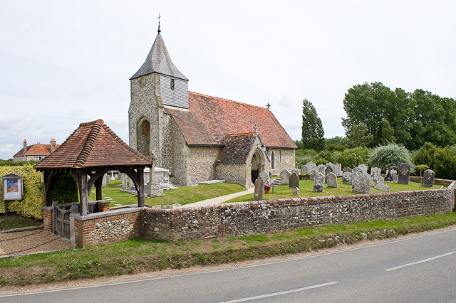 Church of St Nicholas, West Itchenor The opposite bank offered a slightly elevated camera position.